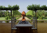 Work